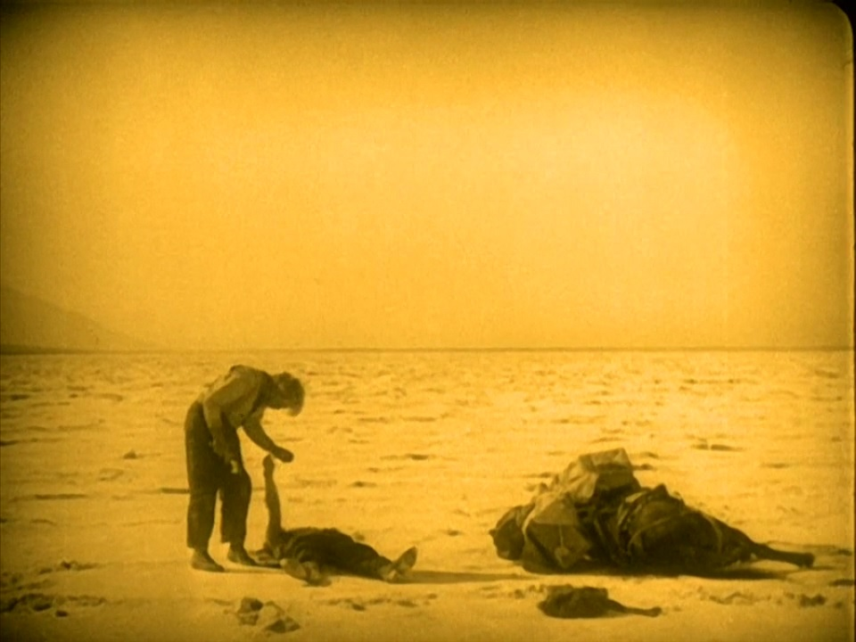 Scenography for the movie Greed. 1924.